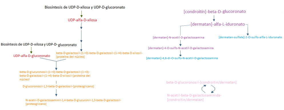 Pathways of biosinthesis